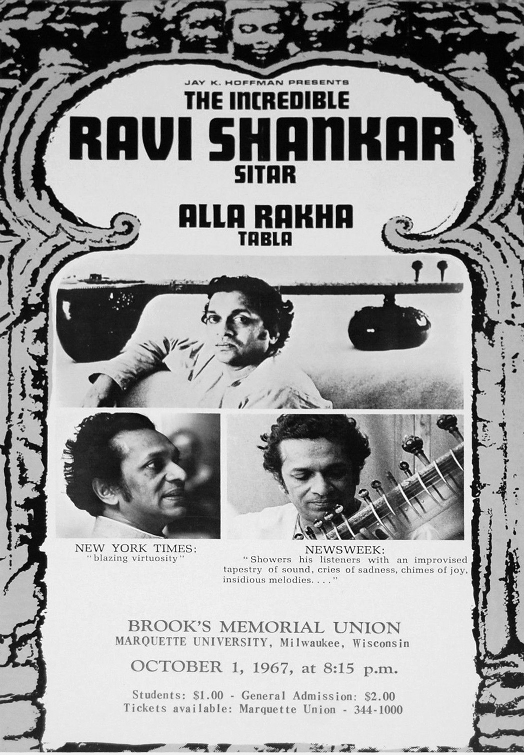 RAVI SHANKAR 1967 Concert Flyer Handbill Wisconsin